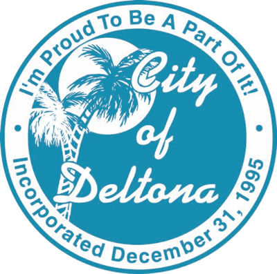 Seal of the city of Deltona, Florida, USA.